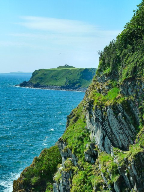 Cliffs by Cruggleton Woods